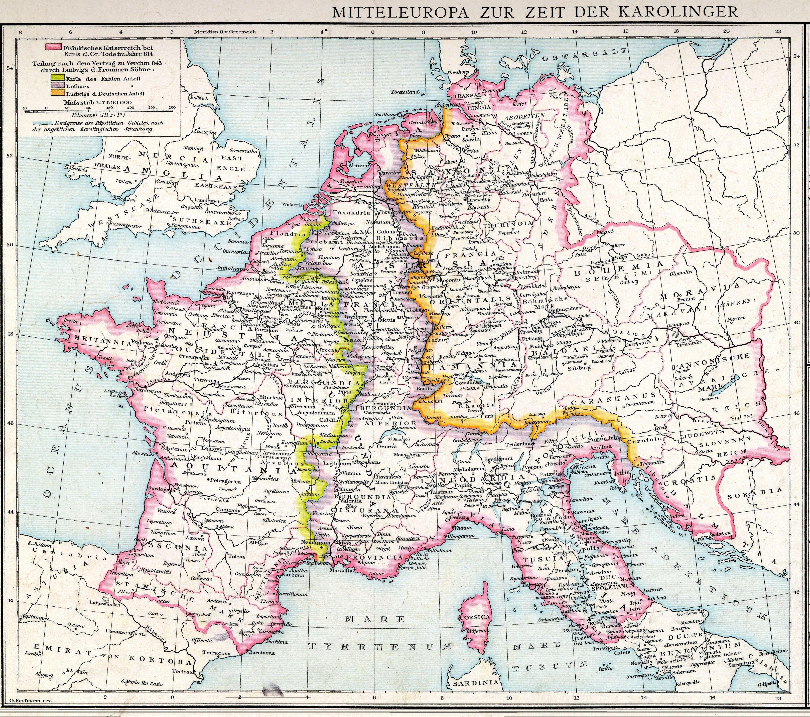 Central Europe in Carolingian times